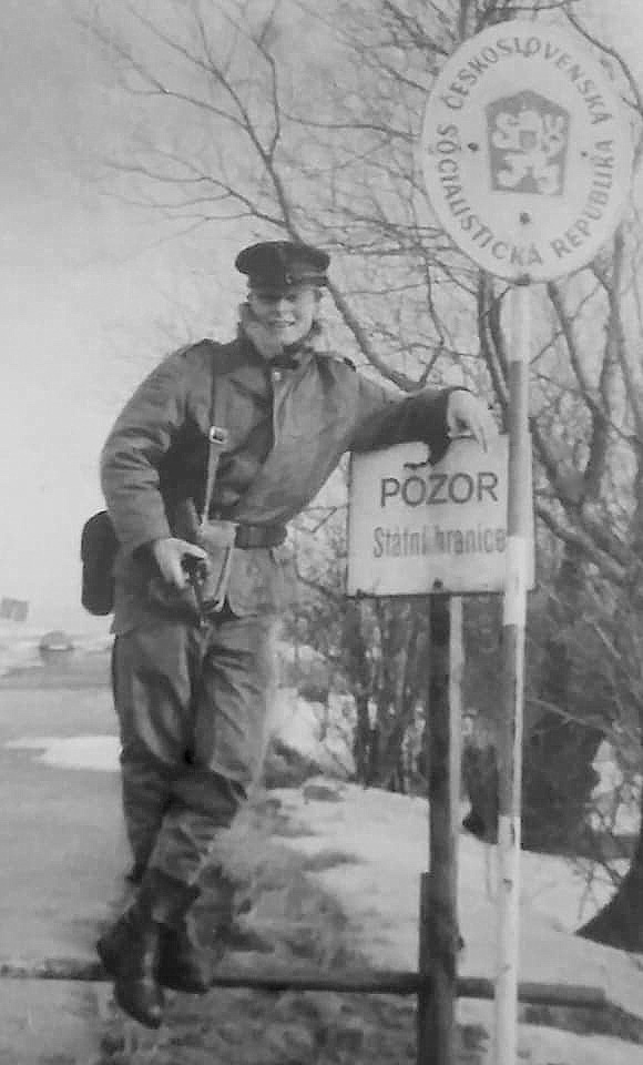 WOP post in Gościce